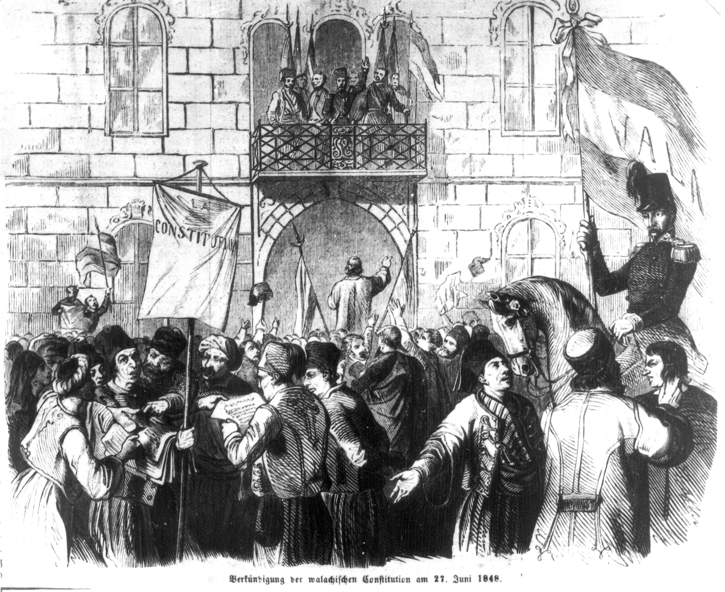 Verkündigung der walachischen Constitution am 27. Juni 1848 German print: Proclamation of the Wallachian Consitution on June 27, 1848